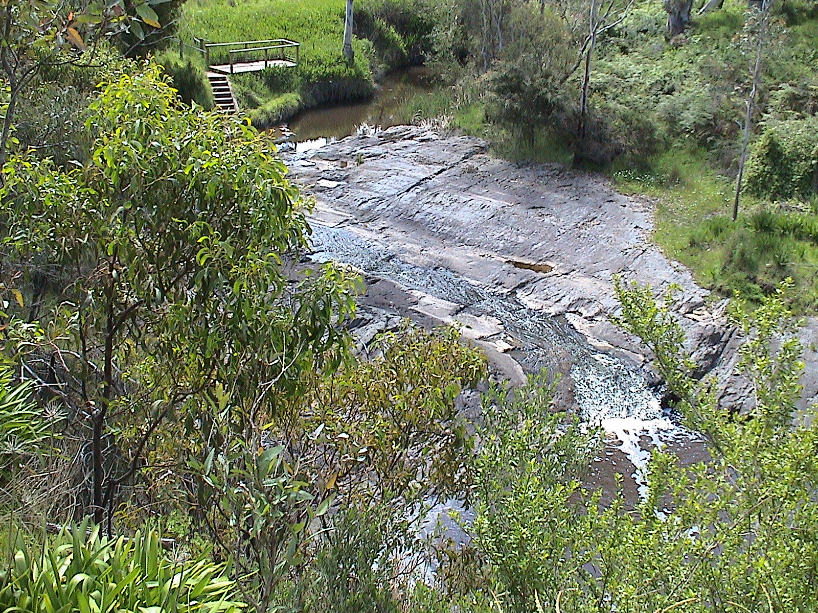 Overview of Selwyn Rock, Inman River, South Australia - exhumed Permian glacial pavement